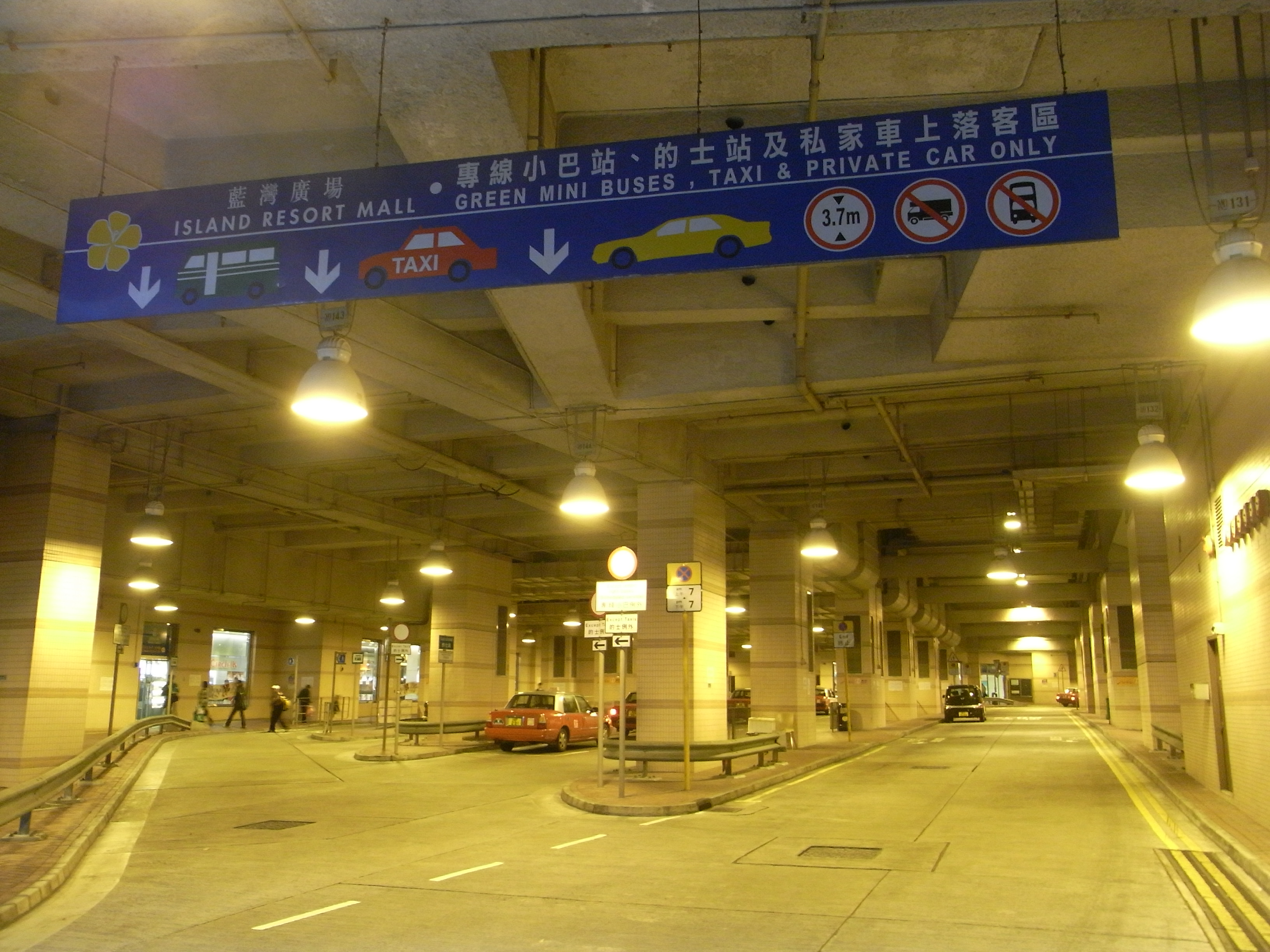 小西灣 藍灣半島 巴士總站 黃昏